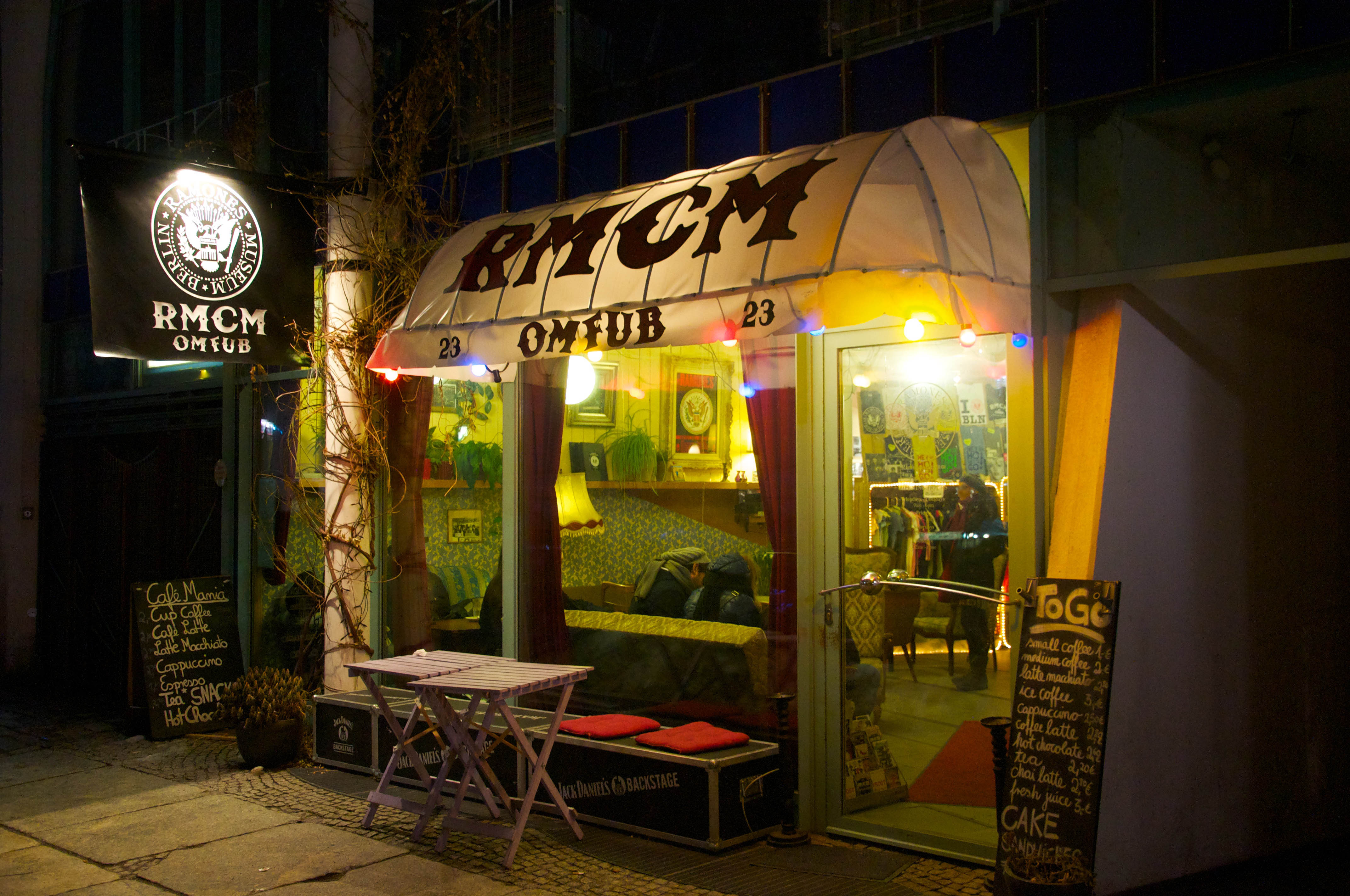 Ramones Berlin Museum